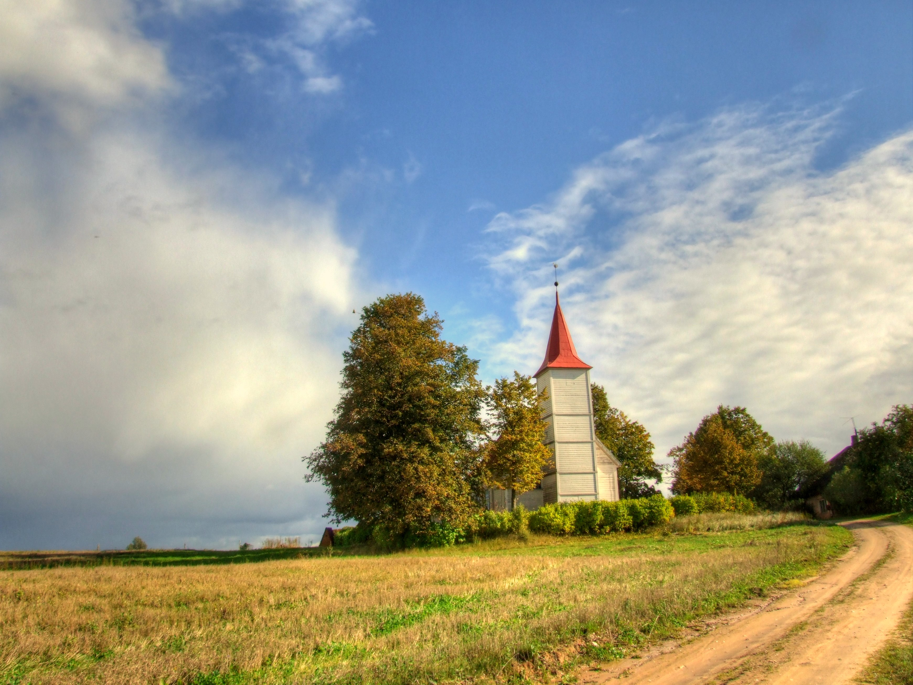 Iģenes baznīca/ wood church